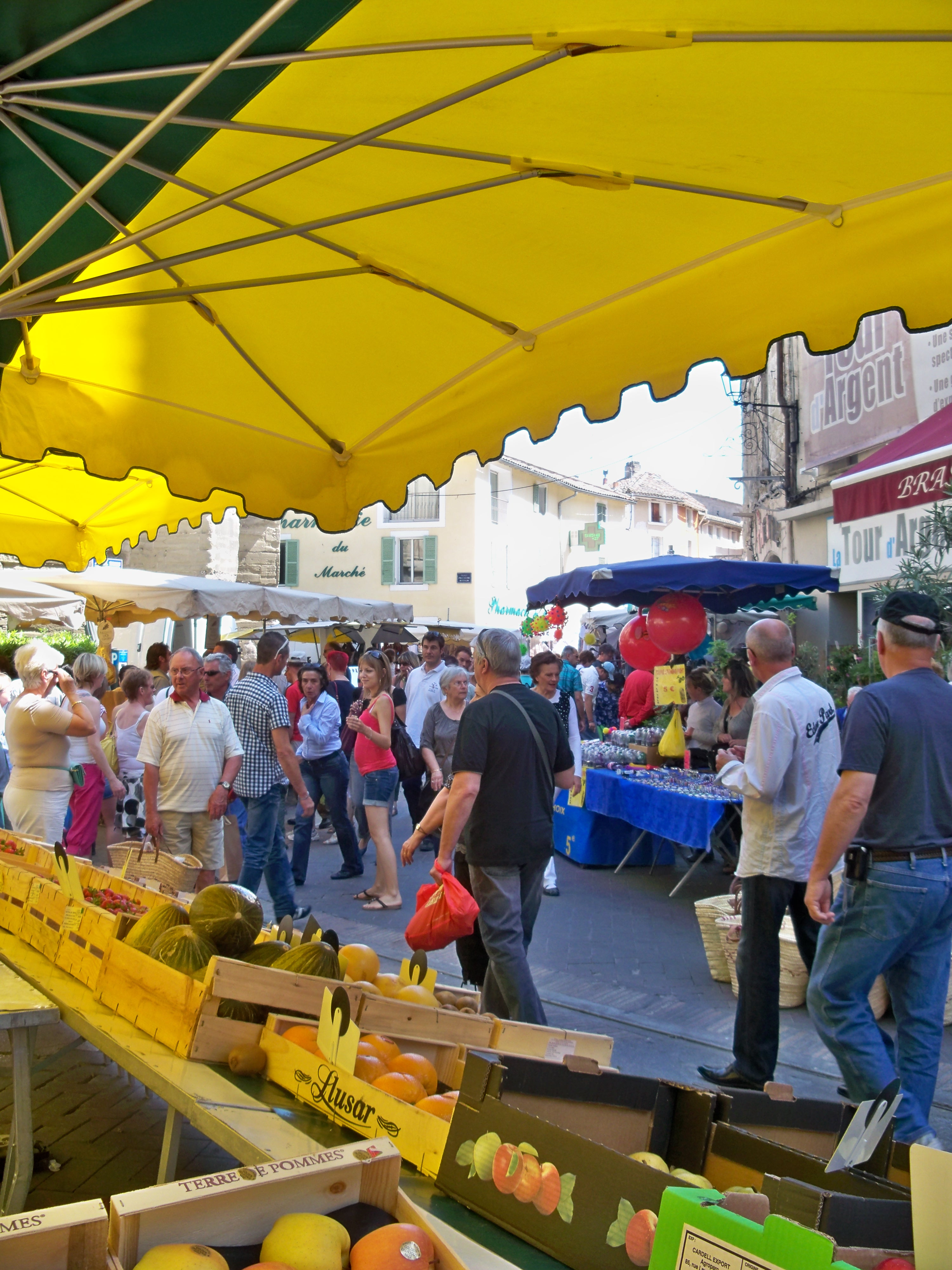 weekly market in L'Isle sur la Sorgue, Vaucluse